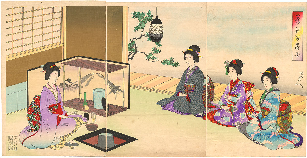 The Tea Ceremony